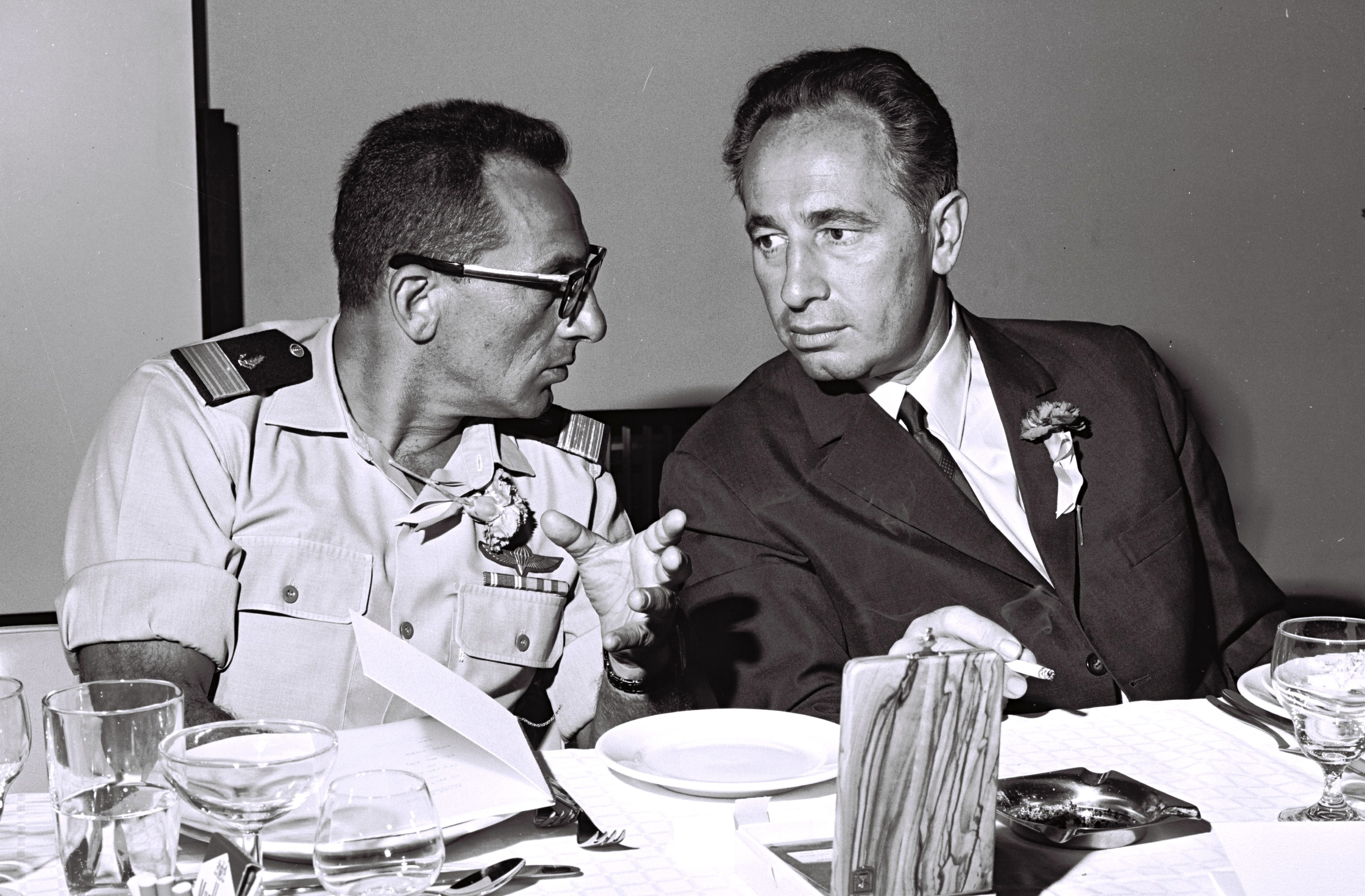 MK Shimon Peres and Navy Commander Aluf Shlomo Harel chat during a luncheon held by the Knesset Foreign Affairs and Security Committee in Jerusalem.